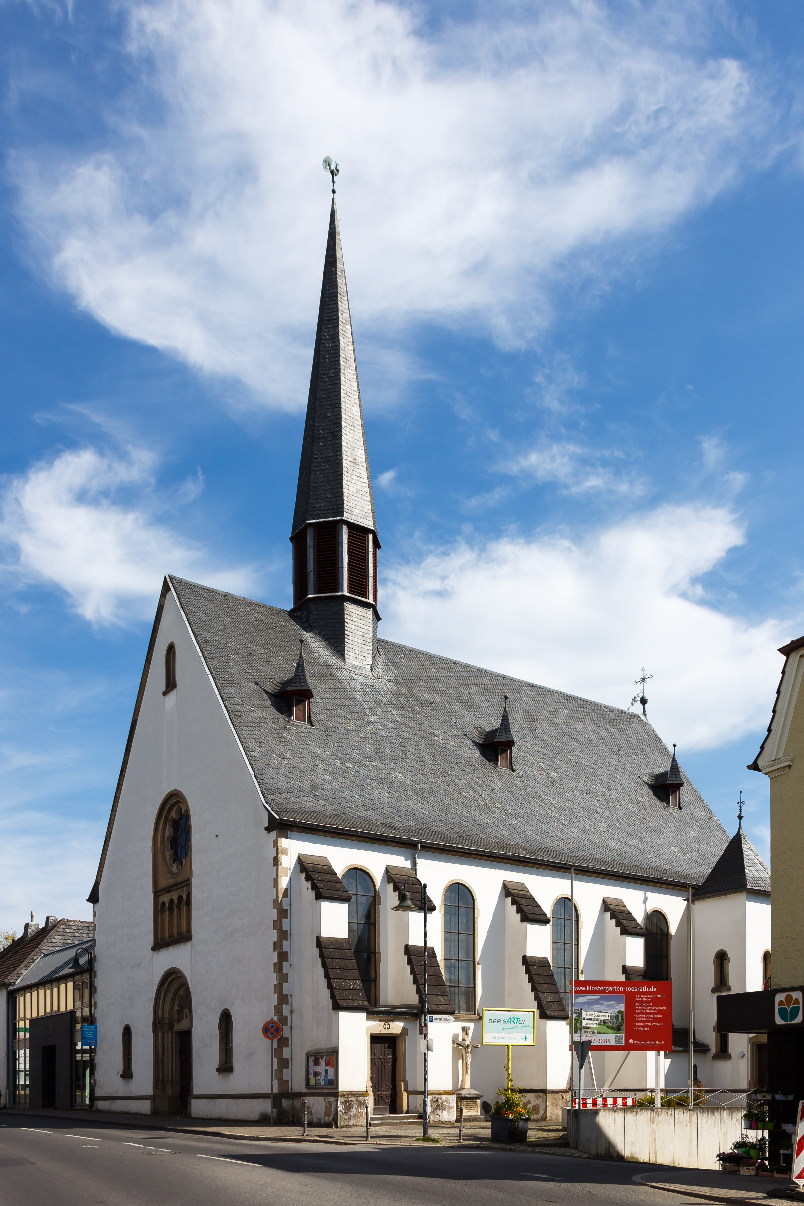 Rösrath, Listed monument number 42, Hauptstrasse 62: Pfarrkirche St. Nikolaus von Tolentino This is a photograph of an architectural monument.